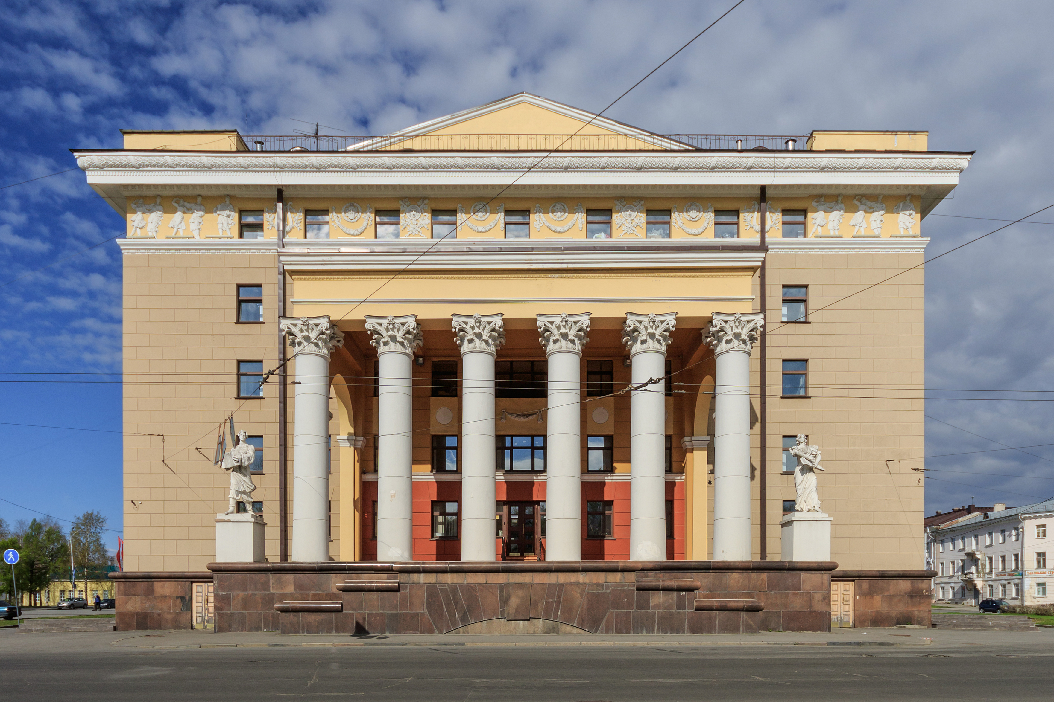 Building of Music Theater (east side) in Petrozavodsk, Republic of Karelia (Russia).